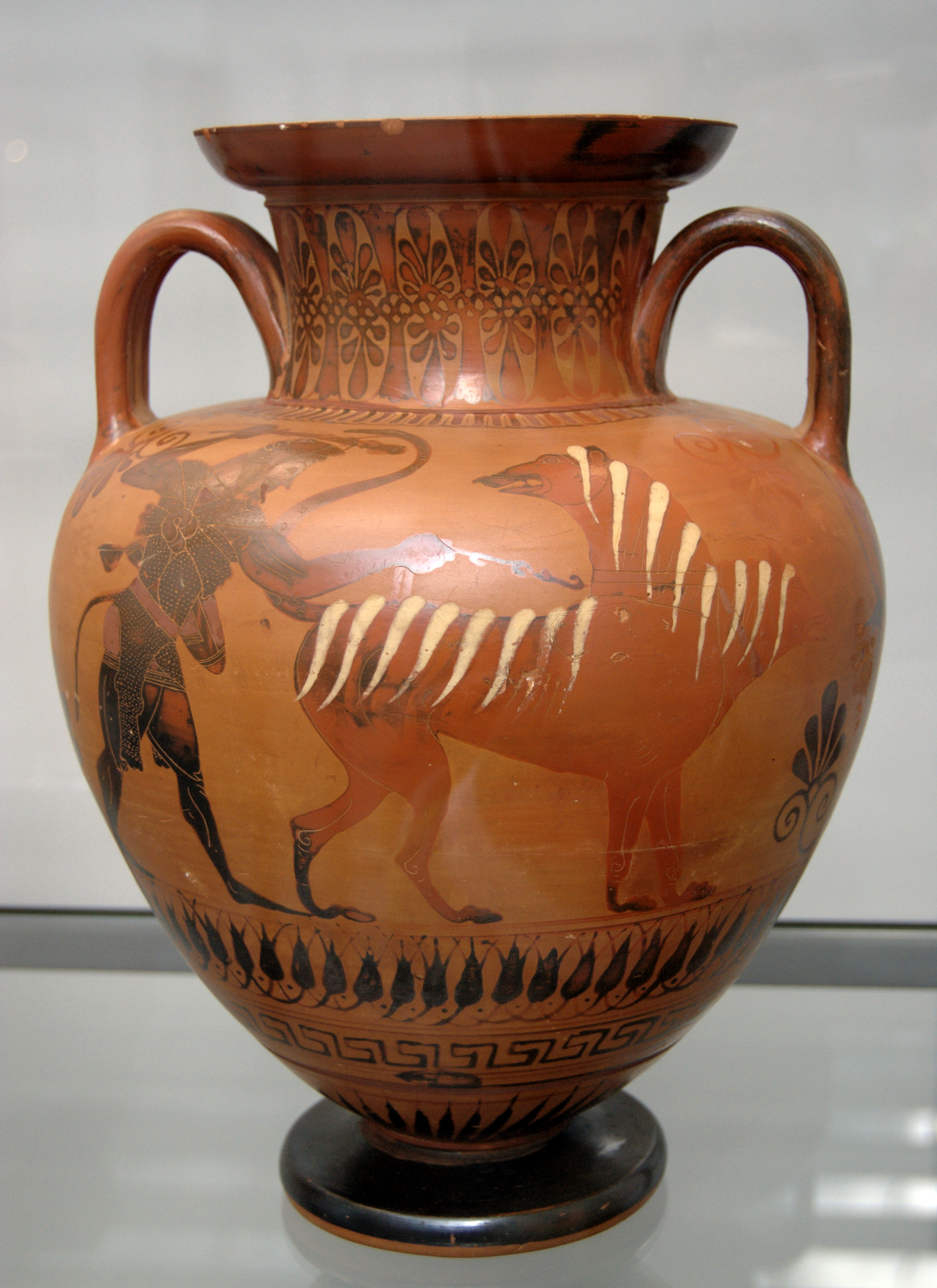 Heracles drives Cerberus ahead of him. The beast turns one of his heads back in a threatening manner and raises its snake tail. A side of a faultily-fired Attic neck amphora, c. 540 BC. Found in Vulci.